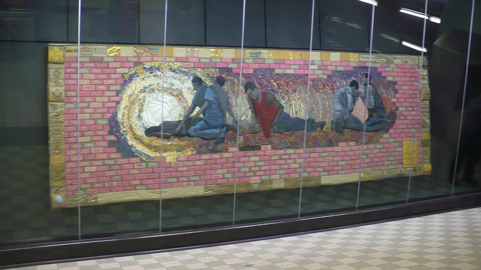 Tapestry called “Breaking Ground” by Laurie Swim, on the mezzanine level of York Mills TTC subway station